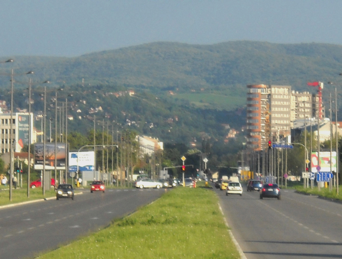 Subotica Boulevard (Boulevard of Europe) in Novi Sad. There are Telep (right) and Adamovićevo Naselje (left) neighborhoods in the background, as well as Fruška Gora mountain.